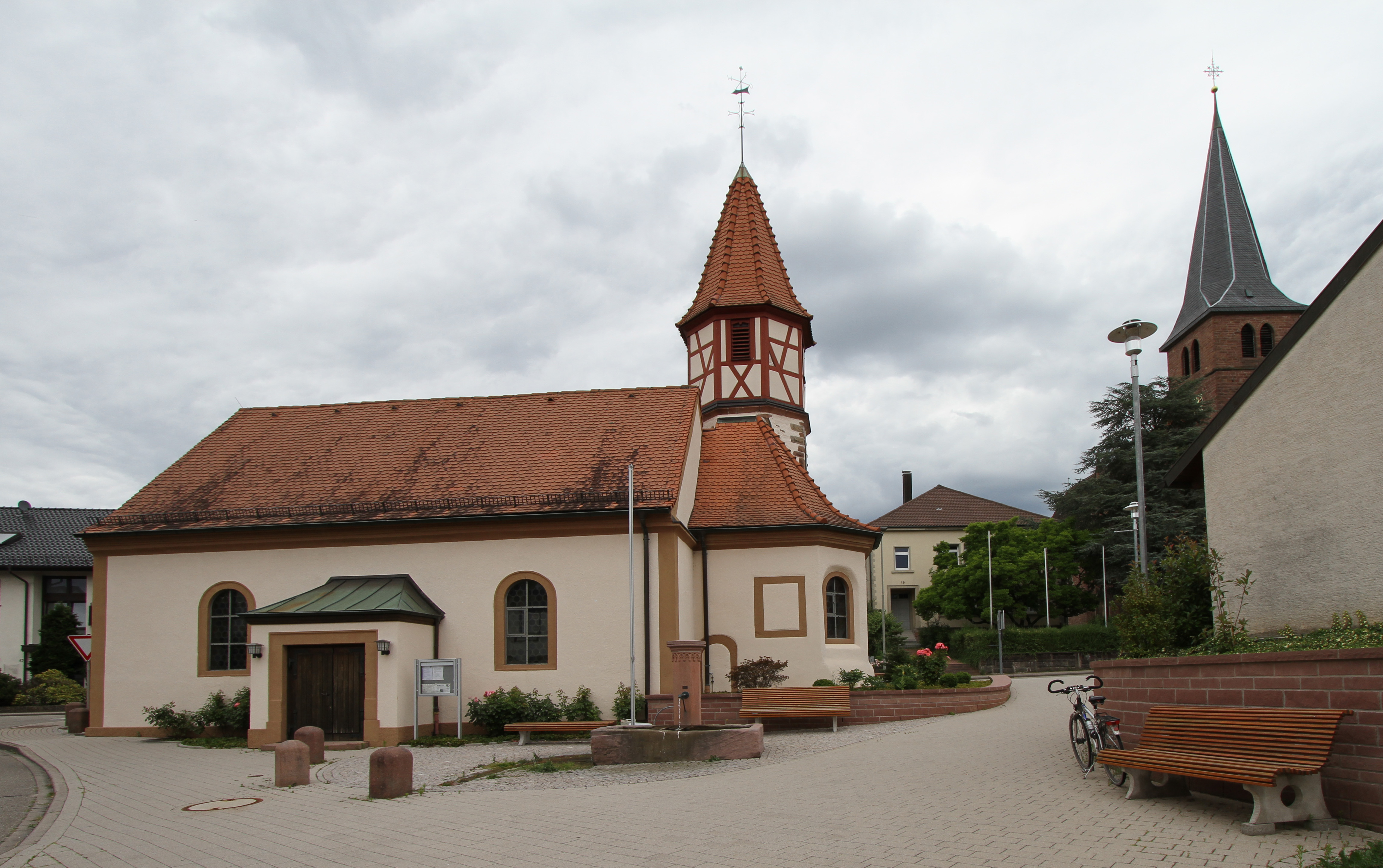 Chapel of St. Anna in Bischweier.